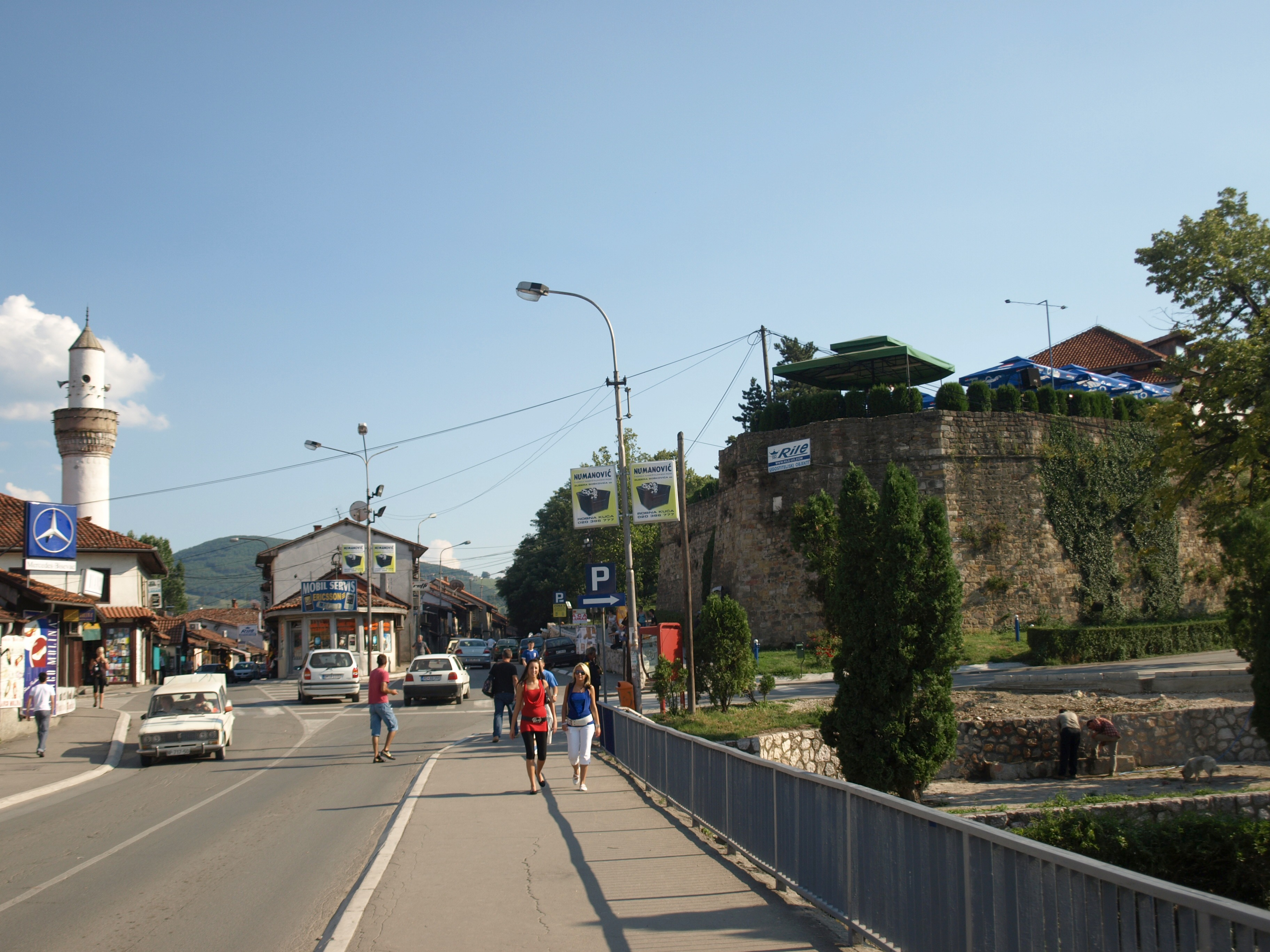 Old town and fortress of Novi Pazar in Serbia